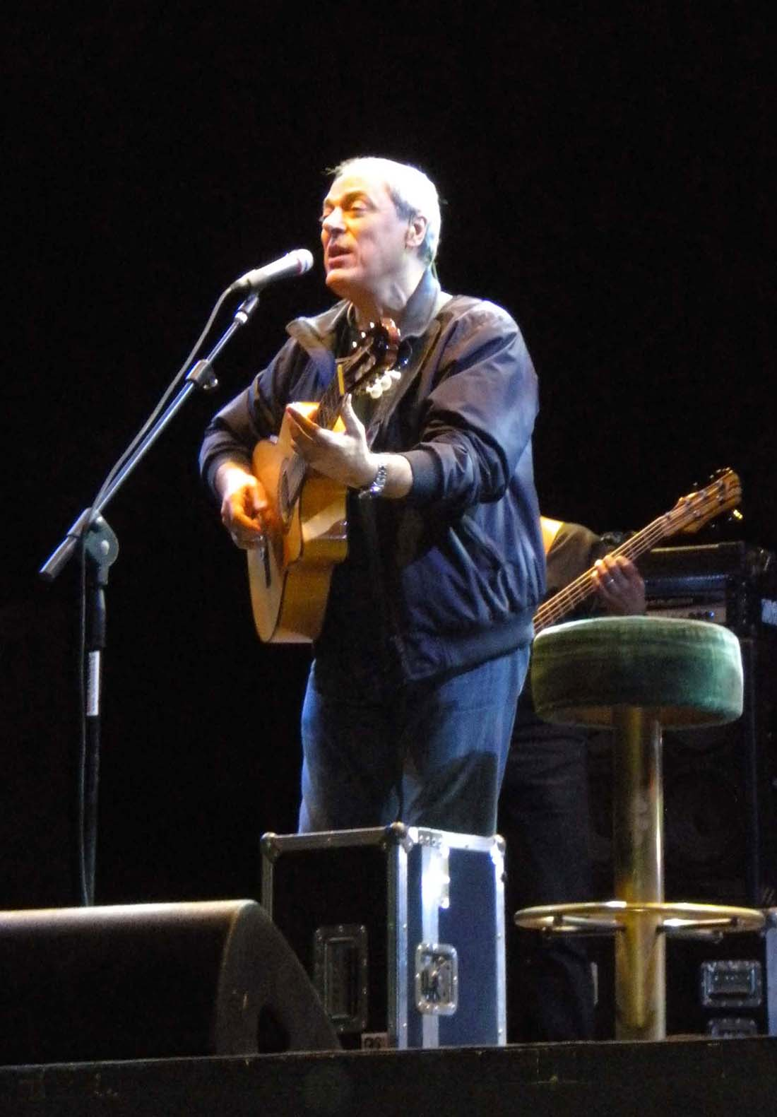 Toquinho in Cremona, Italy, Aug., 5th, 2010